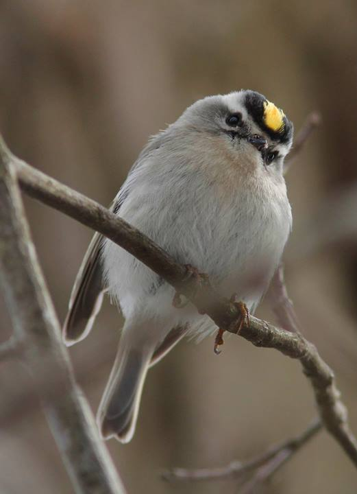 Golden-crowned kinglet (Regulus satrapa") male near Rocky Hill, NJ.